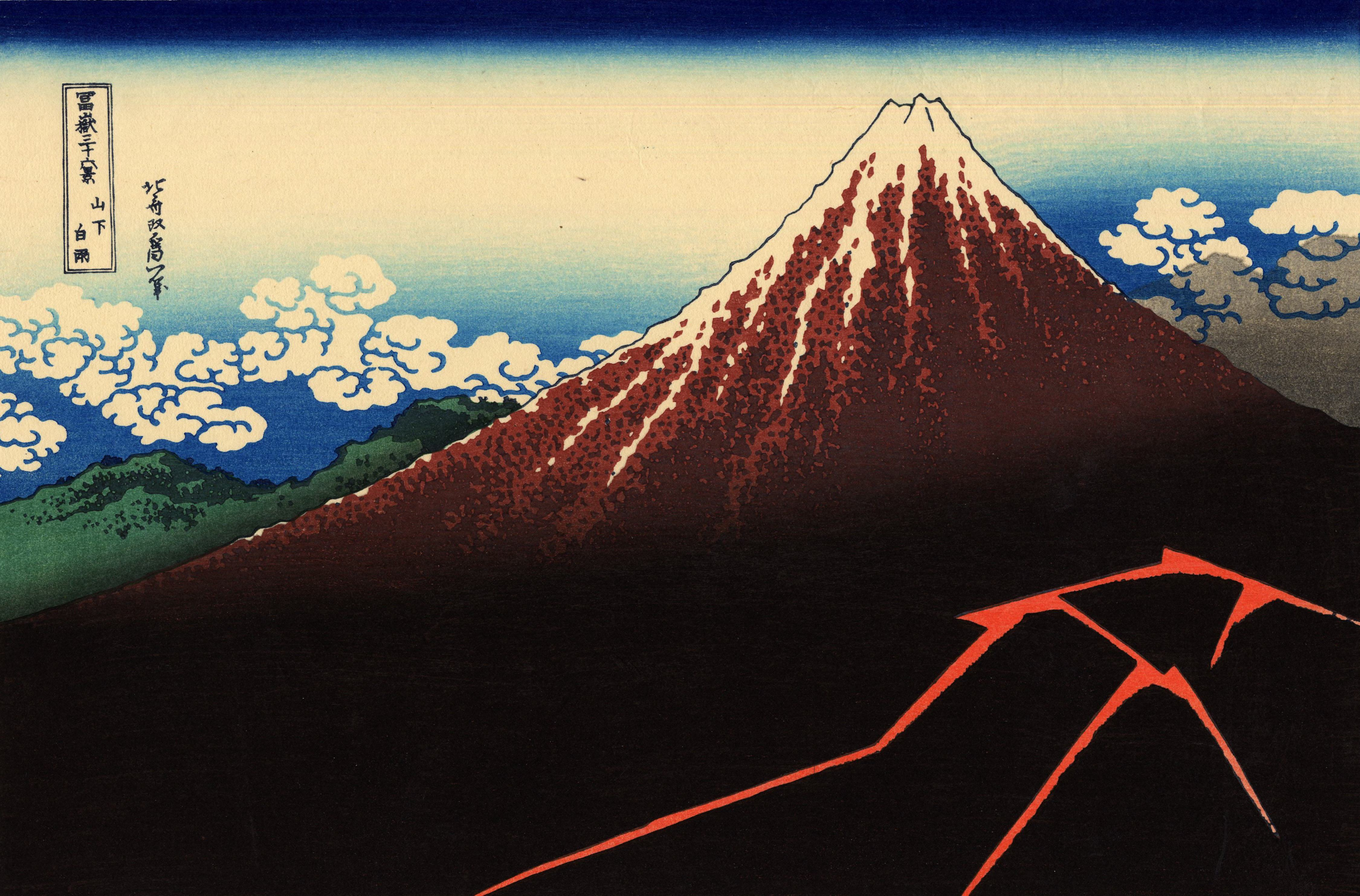 Part of the series Thirty-six Views of Mount Fuji, no. 32.